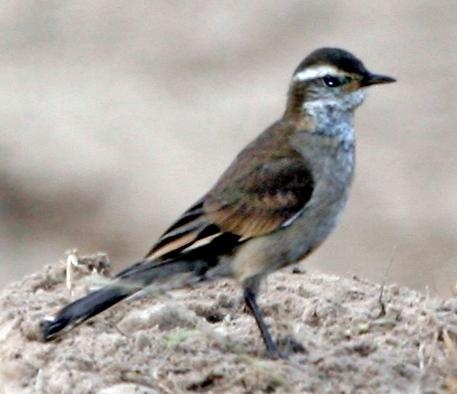 Bar-winged Cinclodes (Cinclodes fuscus), Entre Rios, Argentina